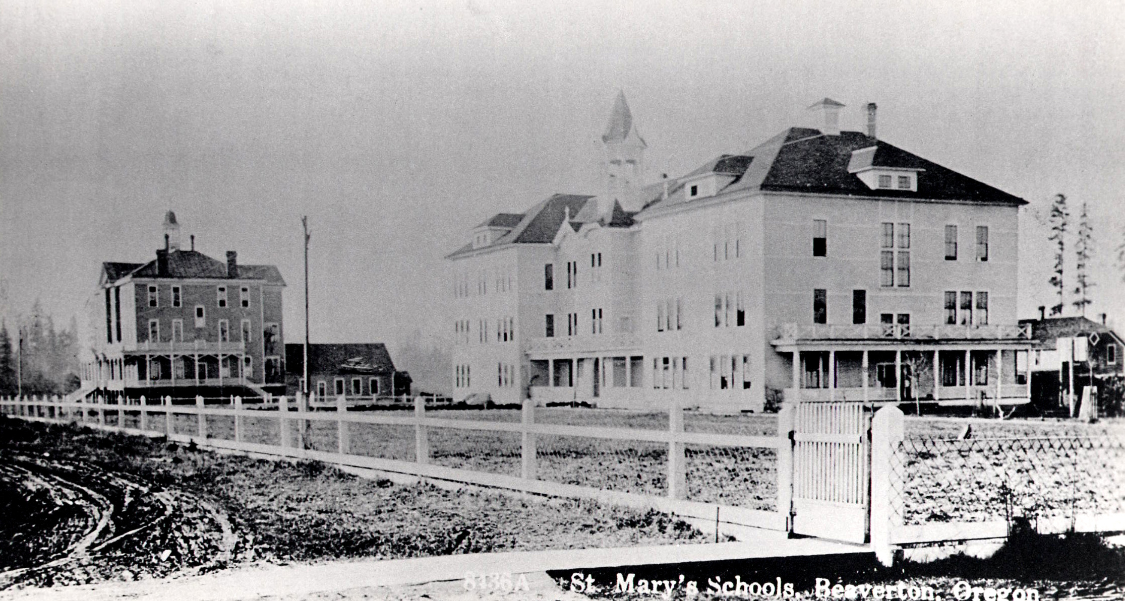 St. Mary's Schools, Beaverton, Oregon 1906. Historical images of Beaverton, Oregon.